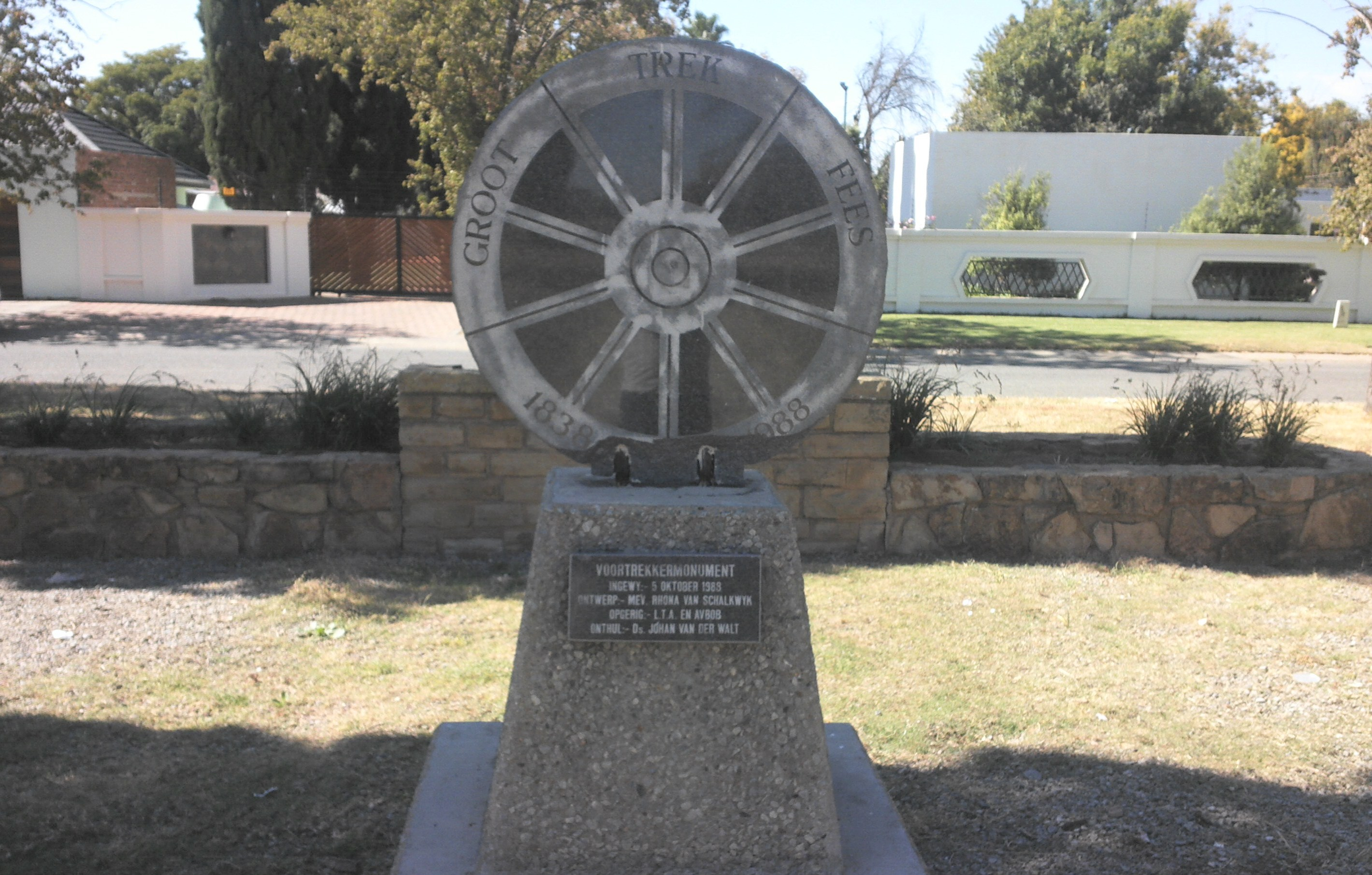 Welkom Voortrekker Commemoration Memorial Other information NA